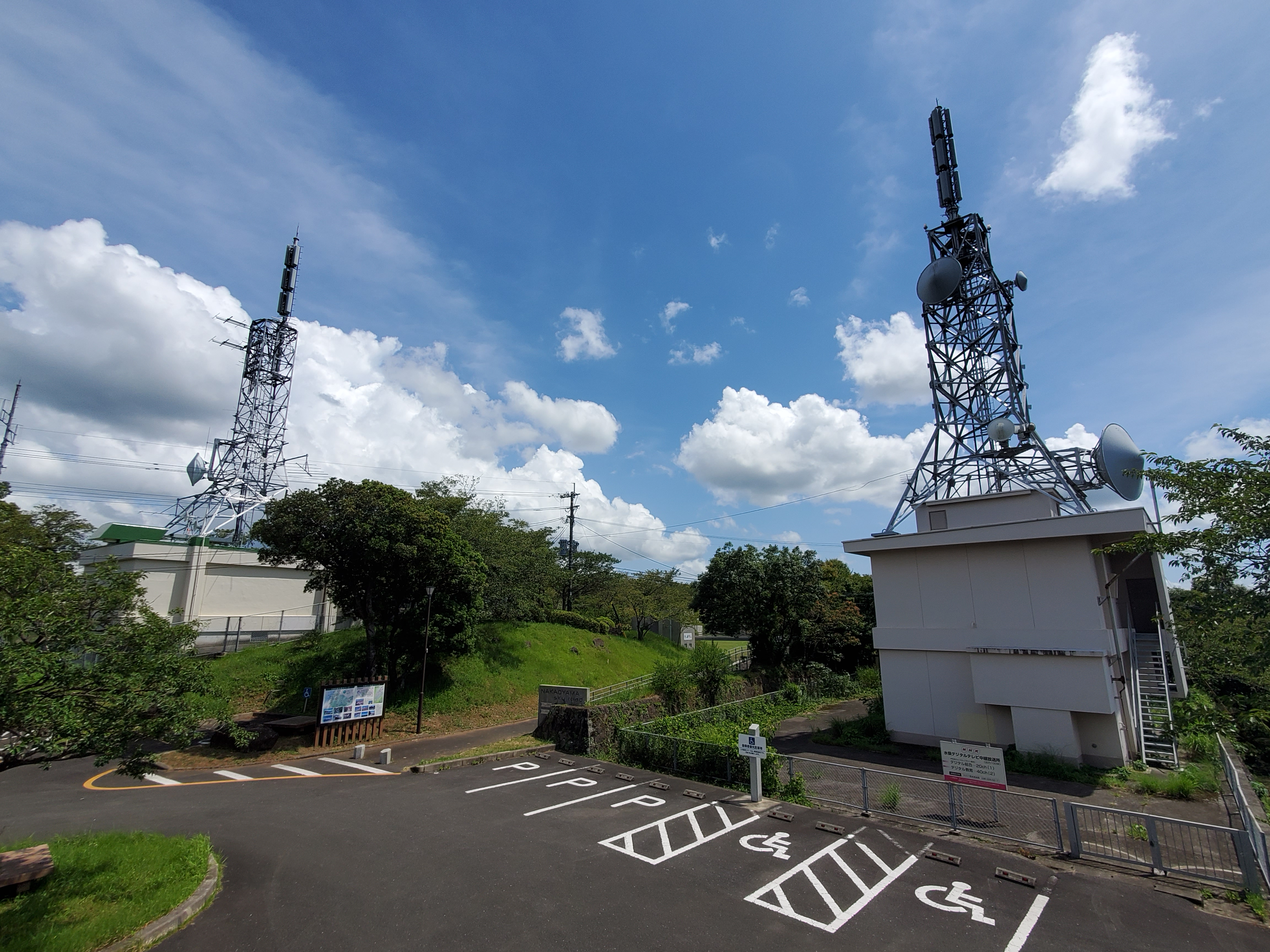 Minamata Digital TV and RKK FM Radio Relay Station in 2020 (Minamata City, Kumamoto, Japan).